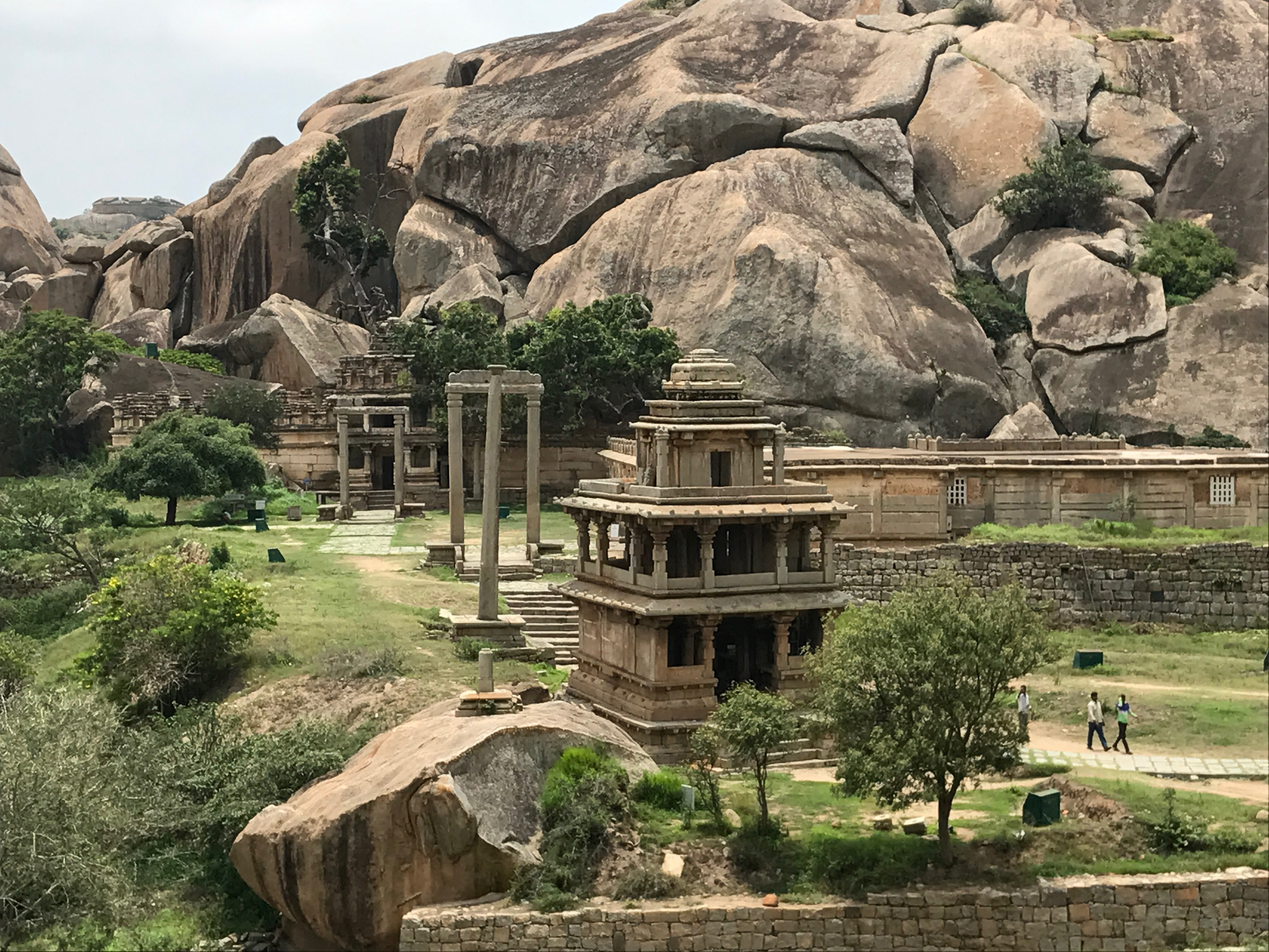 Chitradurga fort was built in stages between the 11th and 13th century by Hindu dynasties, and later served as an important fort for the Vijayanagara Empire. It was taken over by Haider Ali and his son Tipu Sultan after their coup over Mysore kingdom. After 20 years under Haider Ali and Tipu Sultan, the British captured it. The fort consists of seven layers of fortifications, with many strategically designed gates. Inside the fort are living quarters, granaries, water reservoirs and 18 significant Hindu temples built between 11th and 17th centuries CE.